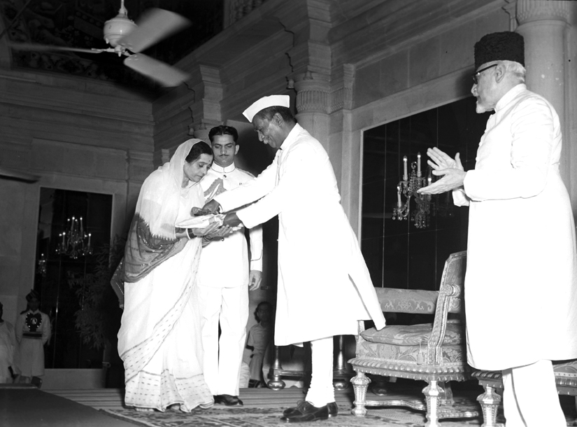 Caption:- Studio/Mar.53,A22d(v)Shrimati Kesarbai Kerkar, Vocalist, Hindustani School of Music, receiving the Annual Award of a purse, shawl and a sanad, from the President, Dr. Rajendra Prasad, at a ceremony held at Rashtrapati Bhavan, New Delhi, on March 14, 1953. Photo Number:-32306